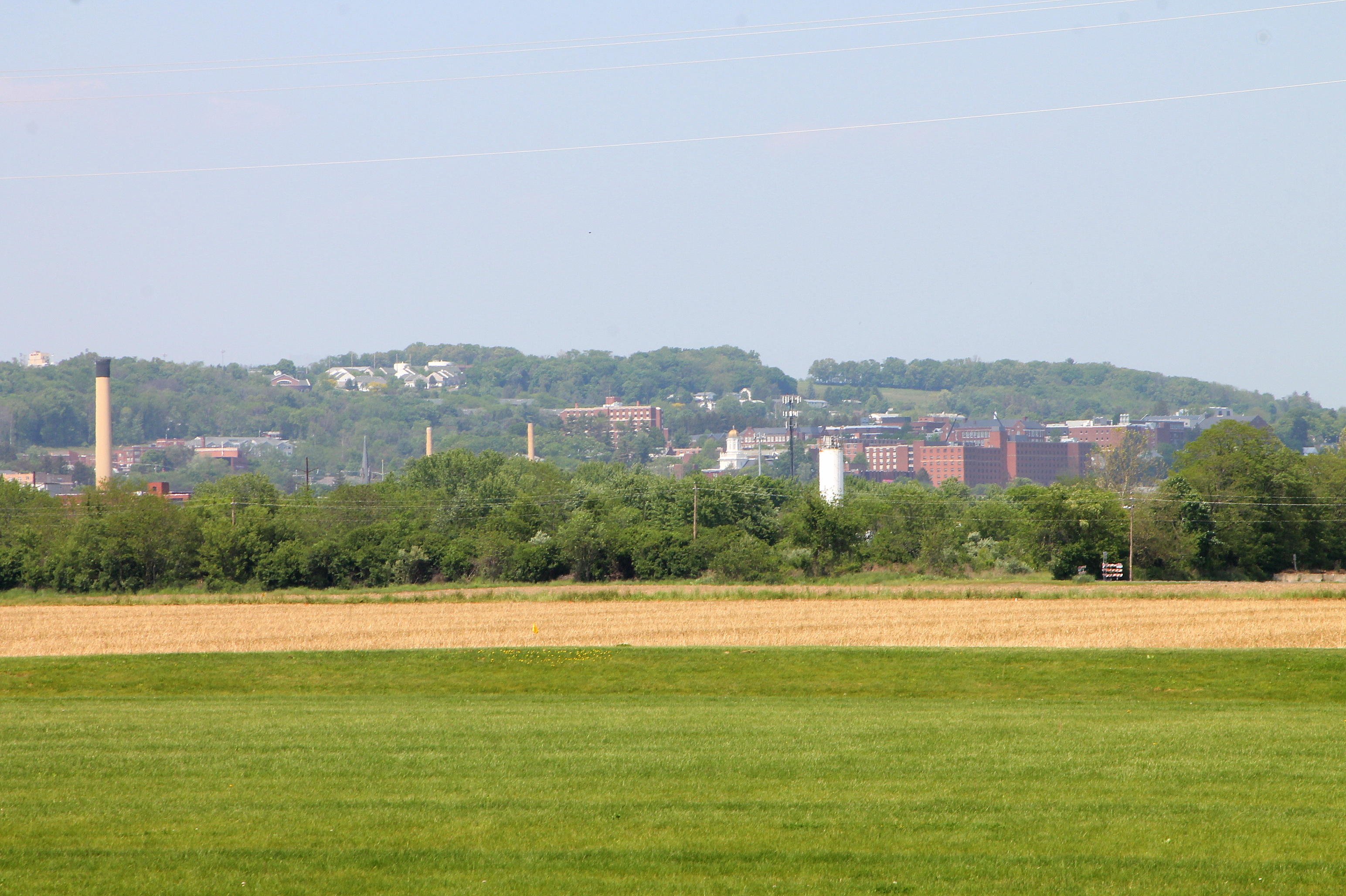 A portion of Turkey Hill, a hill in Columbia County, Pennsylvania. Picture taken from Streater Fields, in southwestern Bloomsburg.